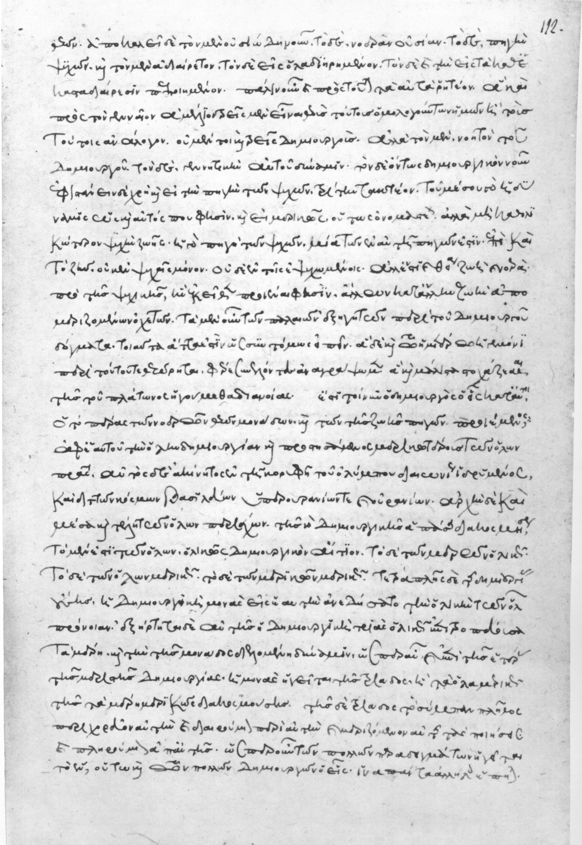 Proclus, Commentary on Plato’s Timaeus, in ms. Naples, Biblioteca Nazionale, Codex III.D.28, fol. 112r.